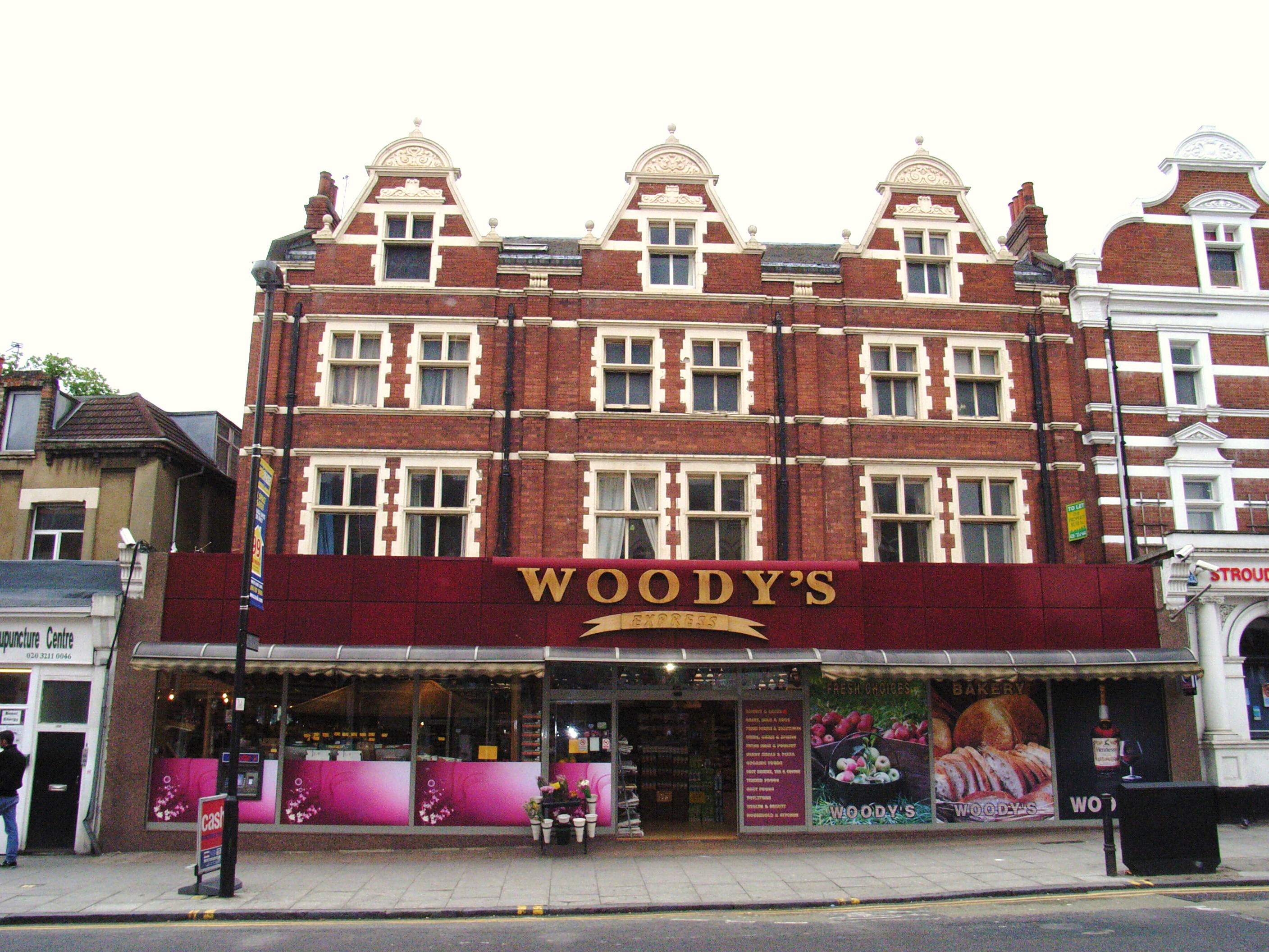 175 Stroud Green Road, London, N4, (middle house) began life in the 1860s as a girls school.